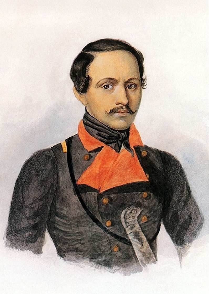 Russian poet Mikhail Yurievich Lermontov